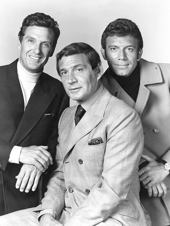 Main cast for the television series The Name of the Game. From left-Robert Stack, Gene Barry and Tony Franciosa.